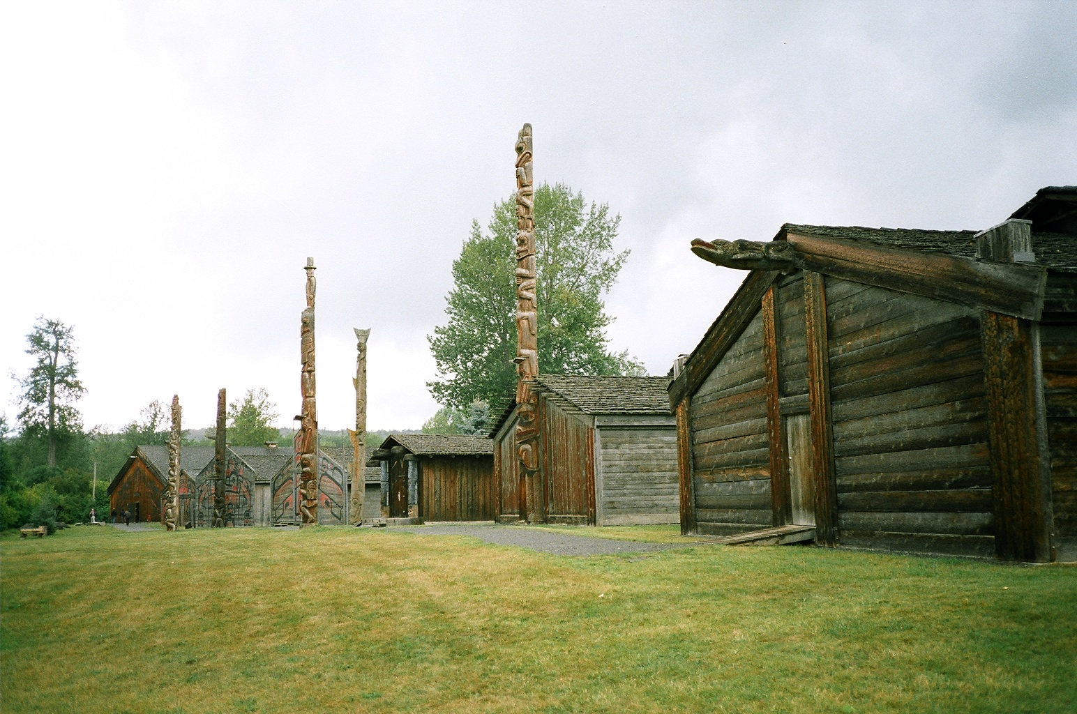 'Ksan Historical Village, British Columbia, Canada